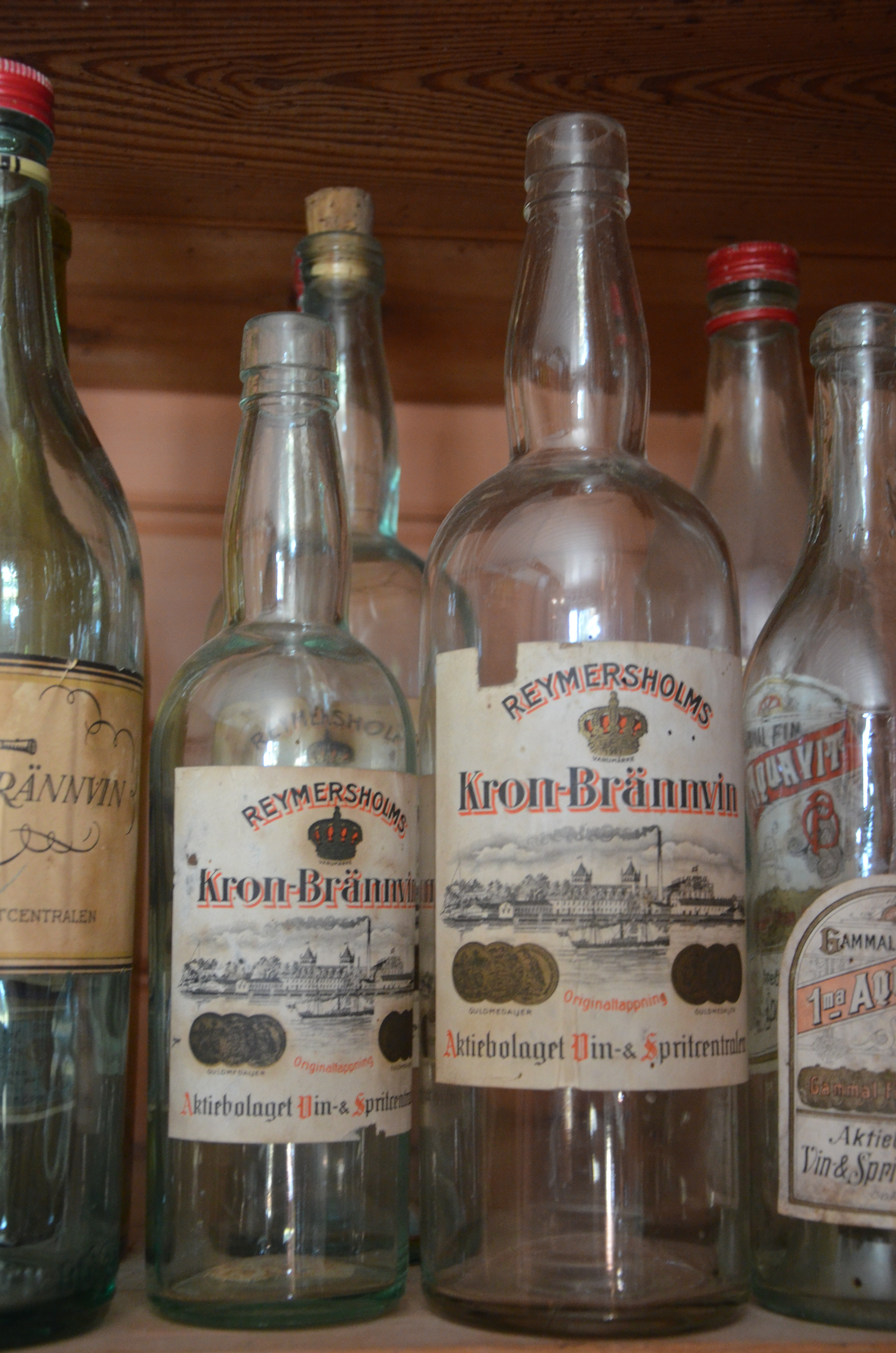 Kronbrännvinsflaskor på Dunbodi lanthandelsmjuseum, Gotland